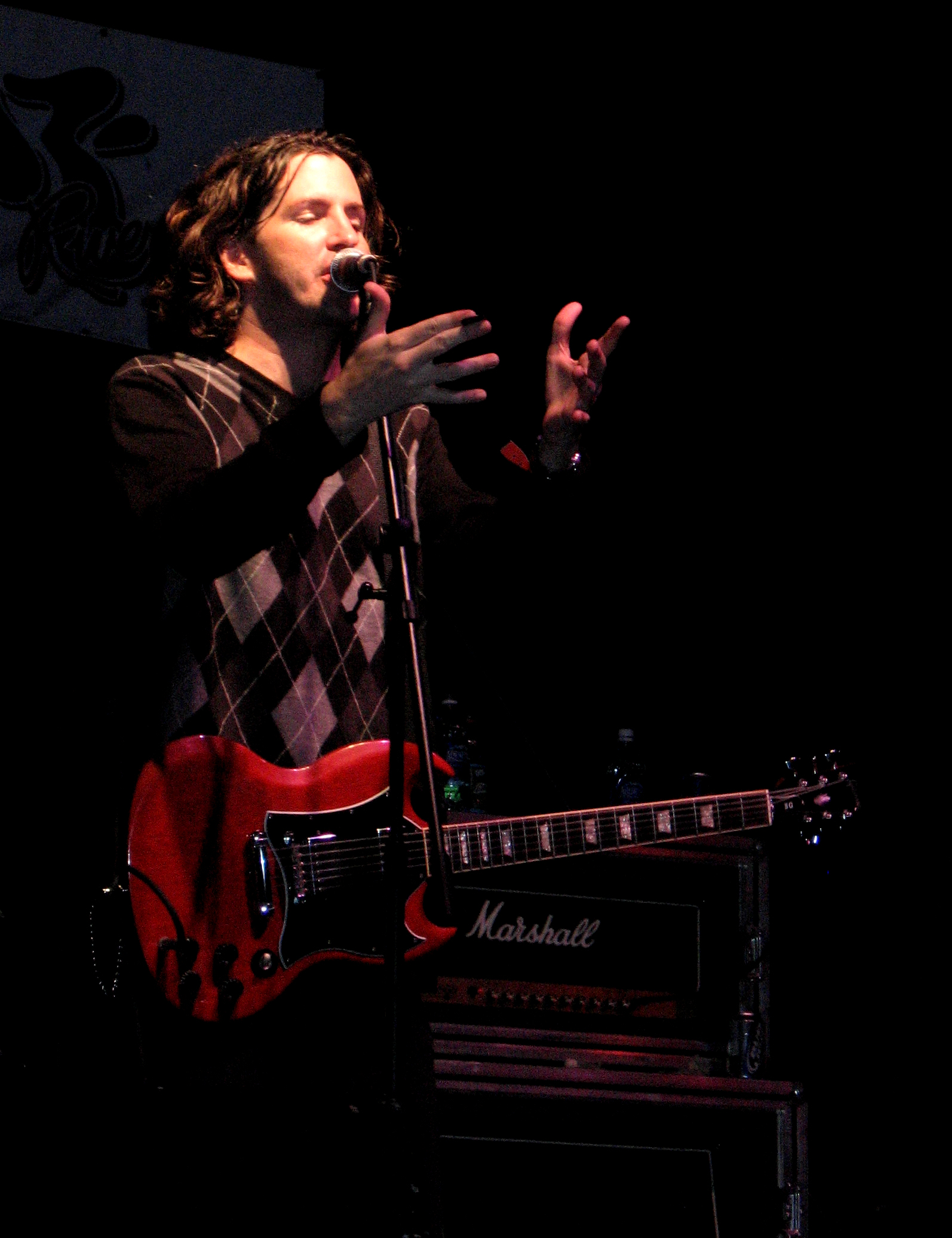 Jimmy Newquist In Concert 2006